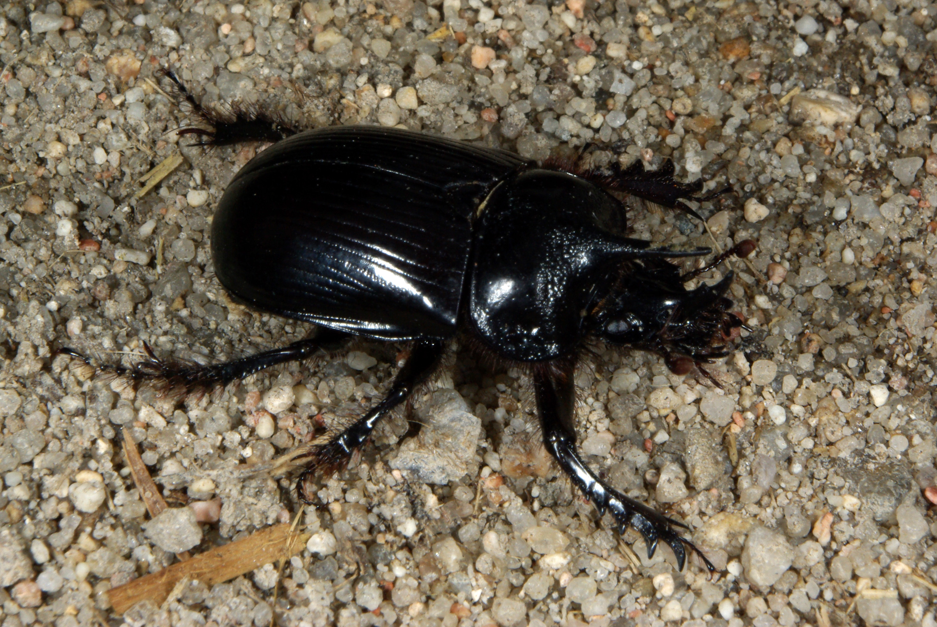 Ceratophyus hoffmannseggi in Olmedo, (Valladolid, Spain).